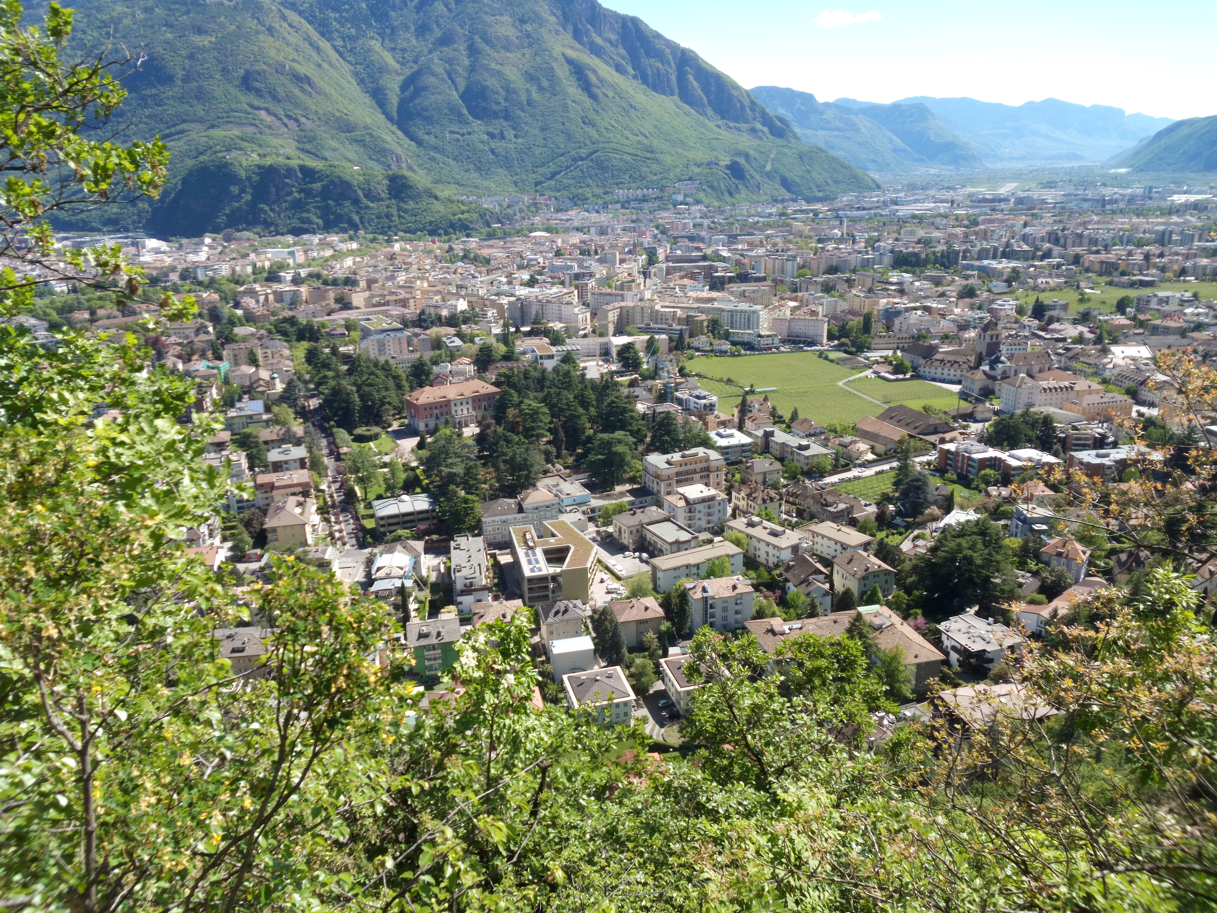 View on the suburb of Gries-Bozen, South Tyrol, Springtime 2016